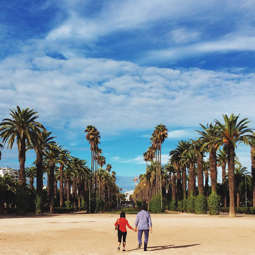 The Arab League Park in Casablanca, Morocco.